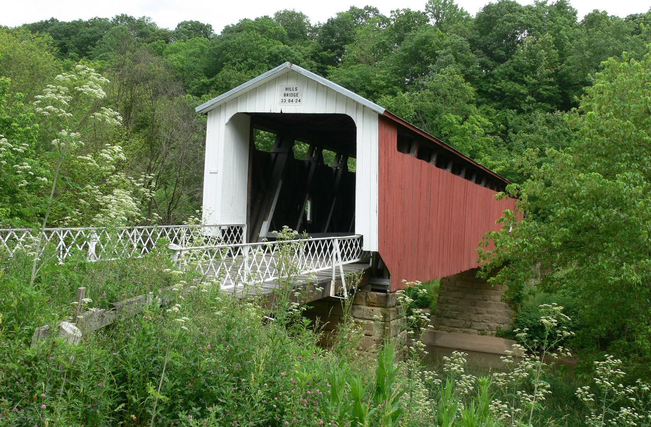 Western end of the Hildreth Covered Bridge (also known as the "Hills Covered Bridge"), which formerly carried Hills Bridge Road over the Little Muskingum River east of Marietta in Newport Township, Washington County, Ohio, United States. Built in 1879, this Howe Truss covered bridge is listed on the National Register of Historic Places.